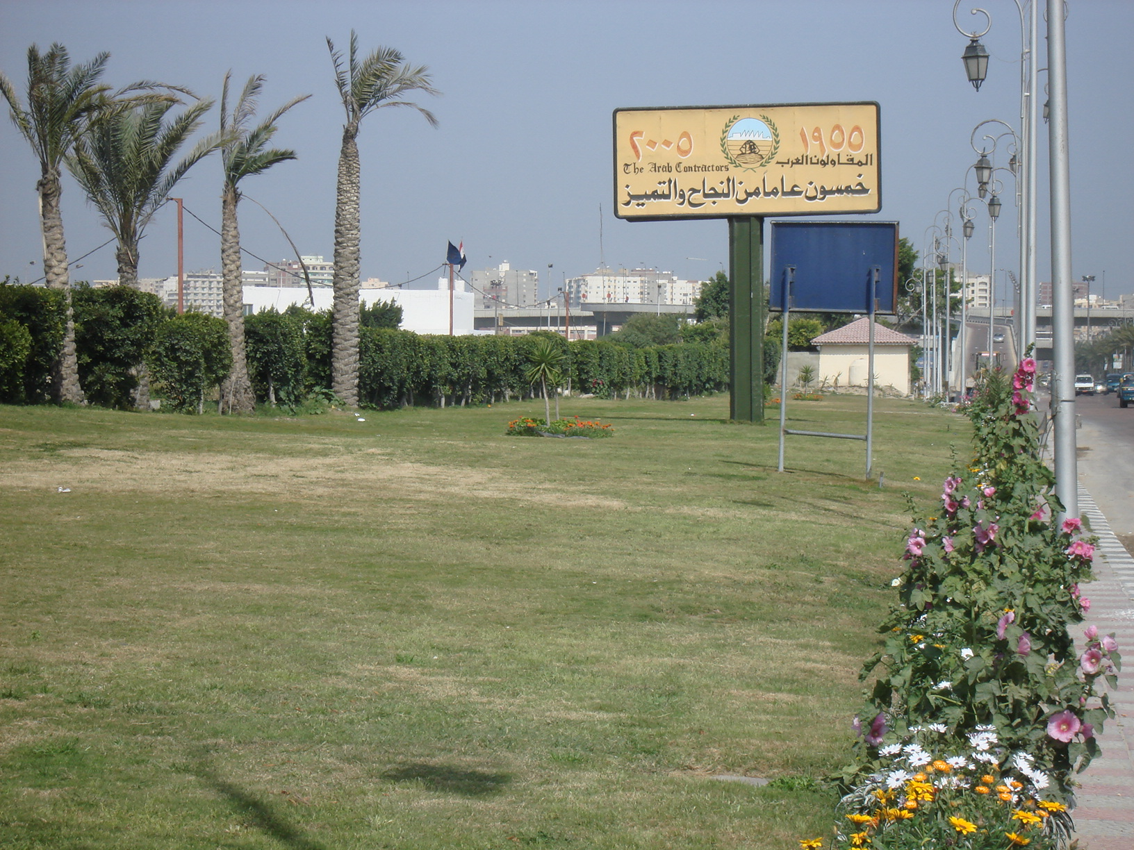 The Arab Contractors' famous yellow sign.